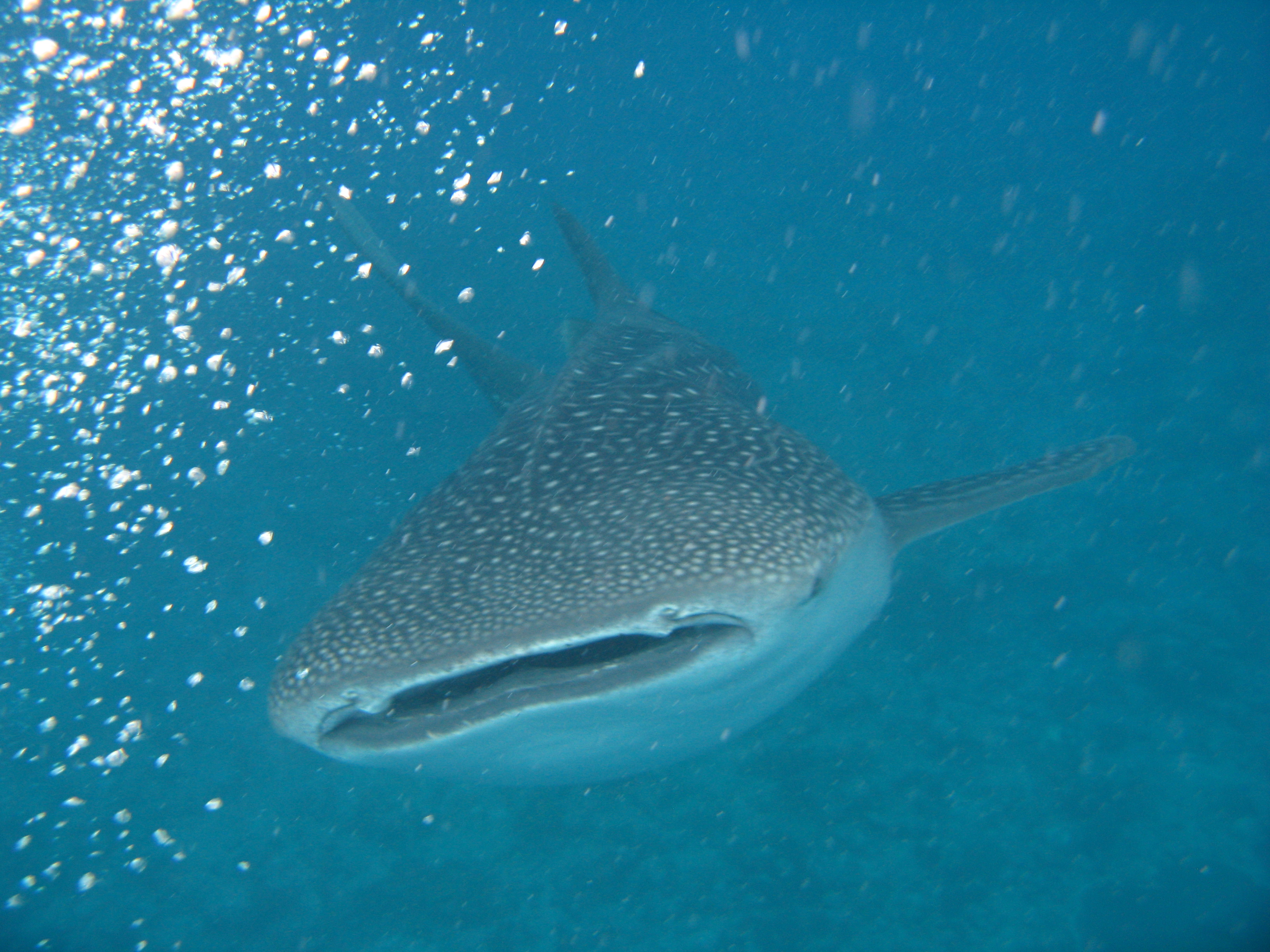 whale shark, Indian ocean, Maldives, South-Ari-Atoll, Budofinolu Thila